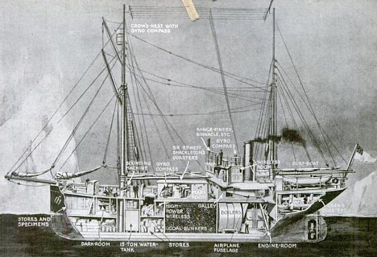 Cutaway diagram of Shackleton's ship "Quest"